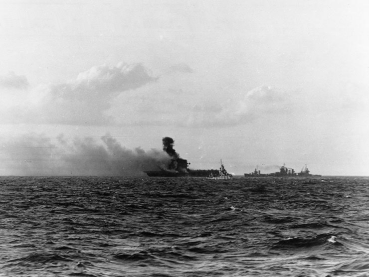 View of an explosion amidships on the U.S. Navy aircraft carrier USS Lexington (CV-2), 8 May 1942. This is probably the explosion at 1727 hrs that took place as the carrier's abandonment was nearing its end. The ships standing by include the heavy cruiser USS Minneapolis (CA-36) and destroyers USS Anderson (DD-411), USS Hammann (DD-412) and USS Morris (DD-417).